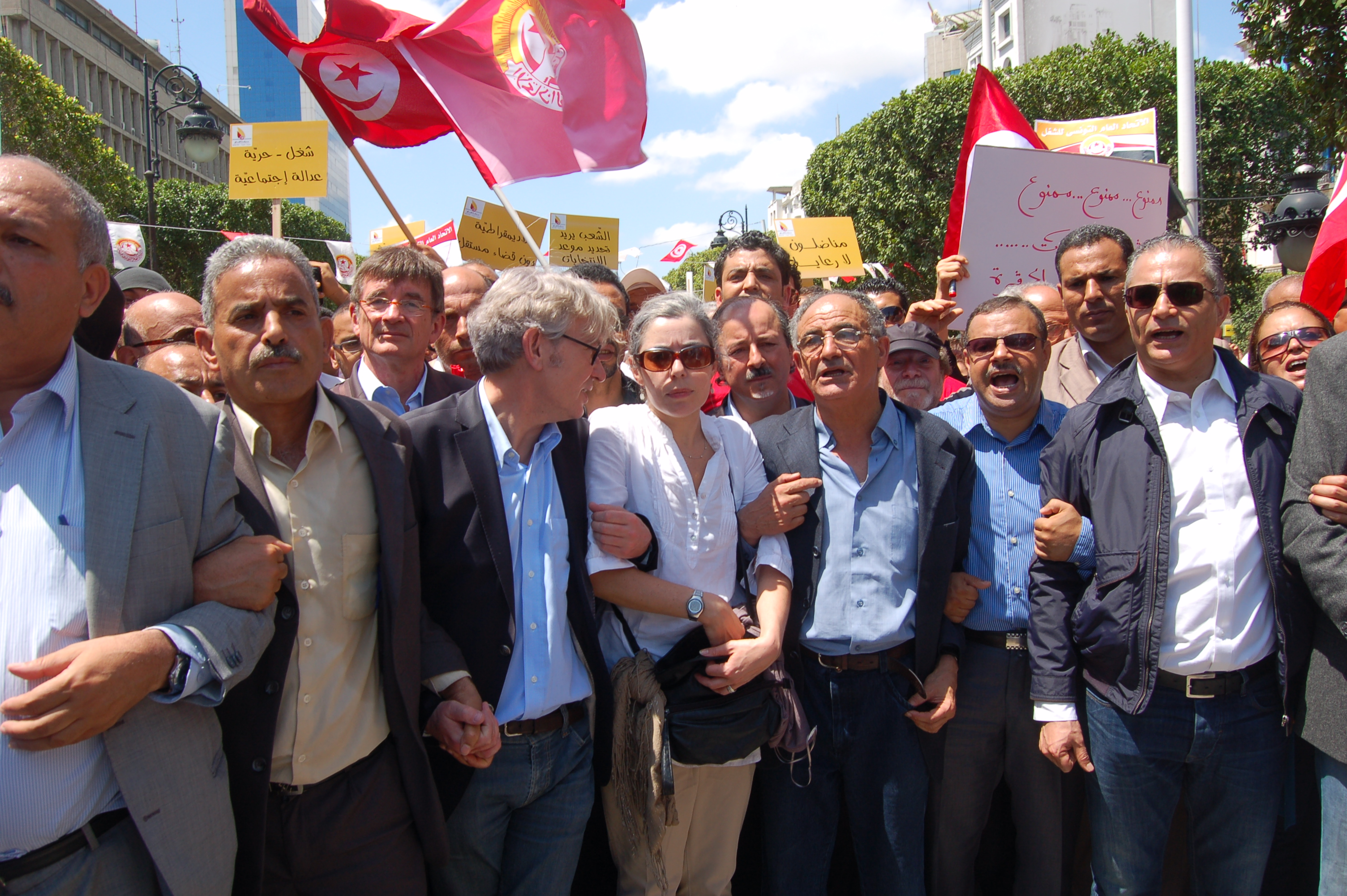 Trade union leaders at the May 1st 2012 protest in Tunis, Tunisia